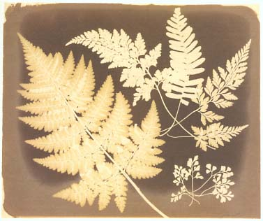 Circle of John Dillwyn Llewelyn, "Ferns," late 1840s-early 1850s